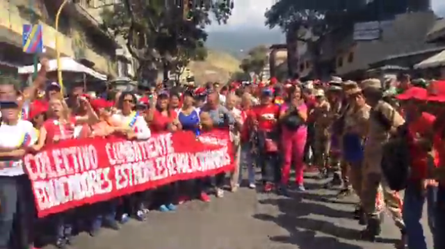 Chavist Venezuelans support Maduro as he is inaugurated in January 2019